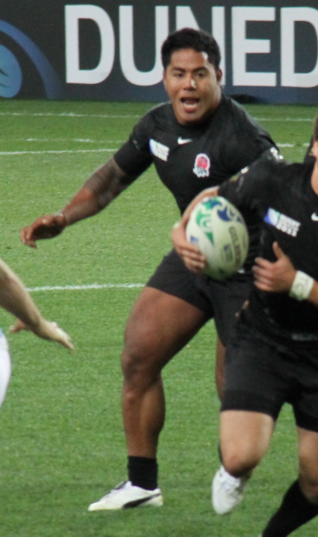 Samoan born English rugby union player Manu Tuilagi during 2011 Rugby World Cup match against Argentina.